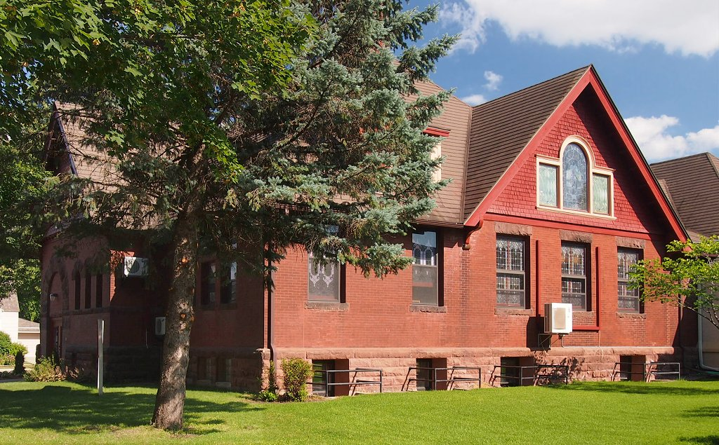 Cathedral of Our Merciful Saviour Guild House, Faribault, Minnesota, USA. Viewed from the northwest.